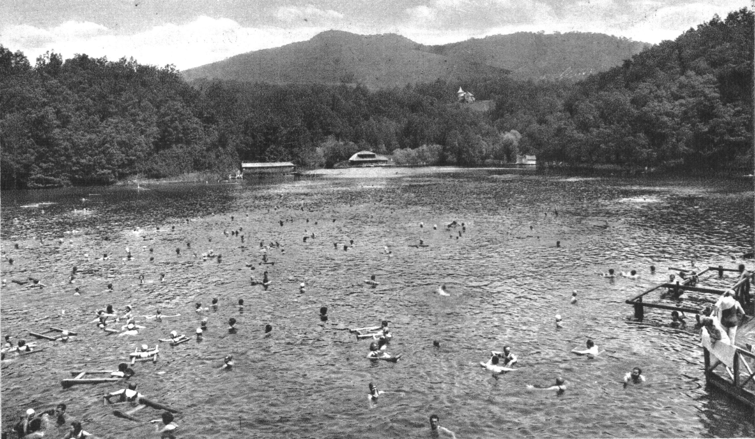 Sovata baths. Bear Lake